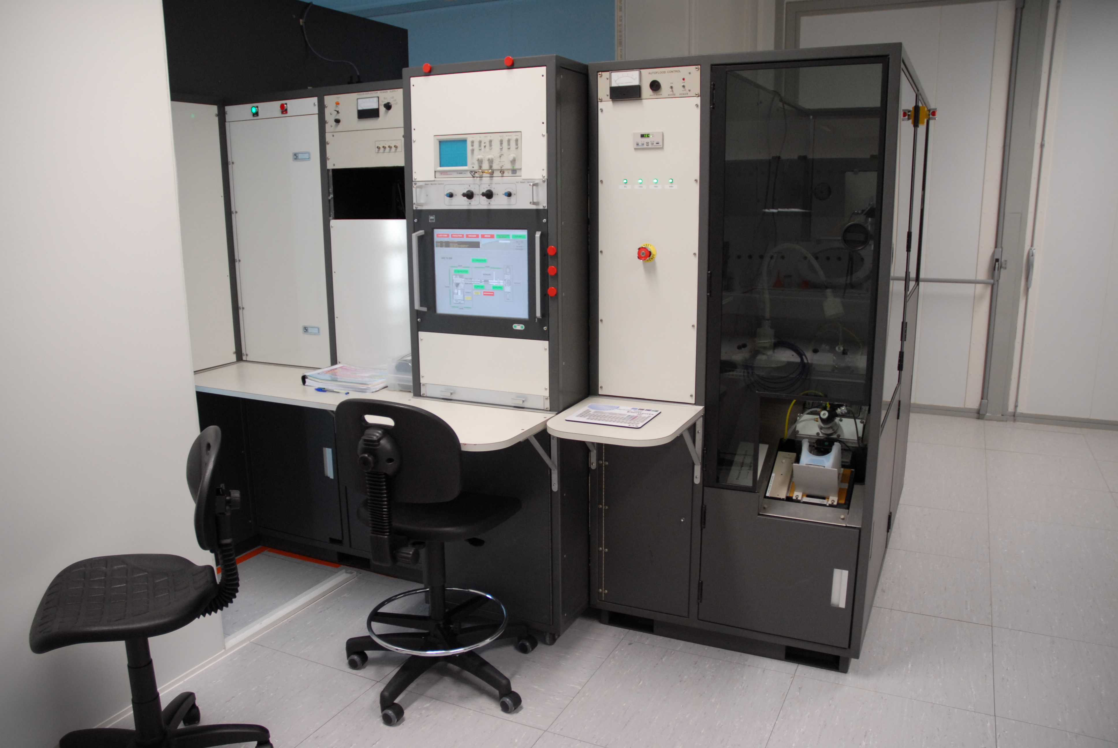 Ion implantation machine front end at LAAS-CNRS technological facility in Toulouse, France.